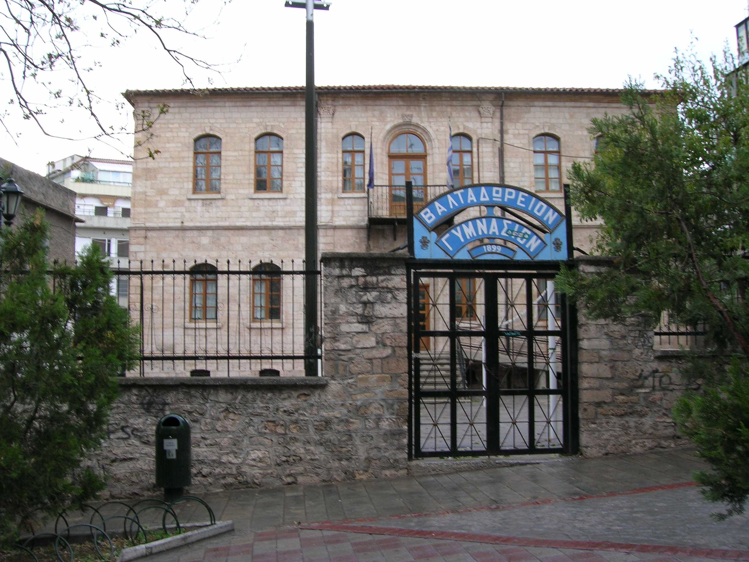 User:Makedonas is the creator of this work.